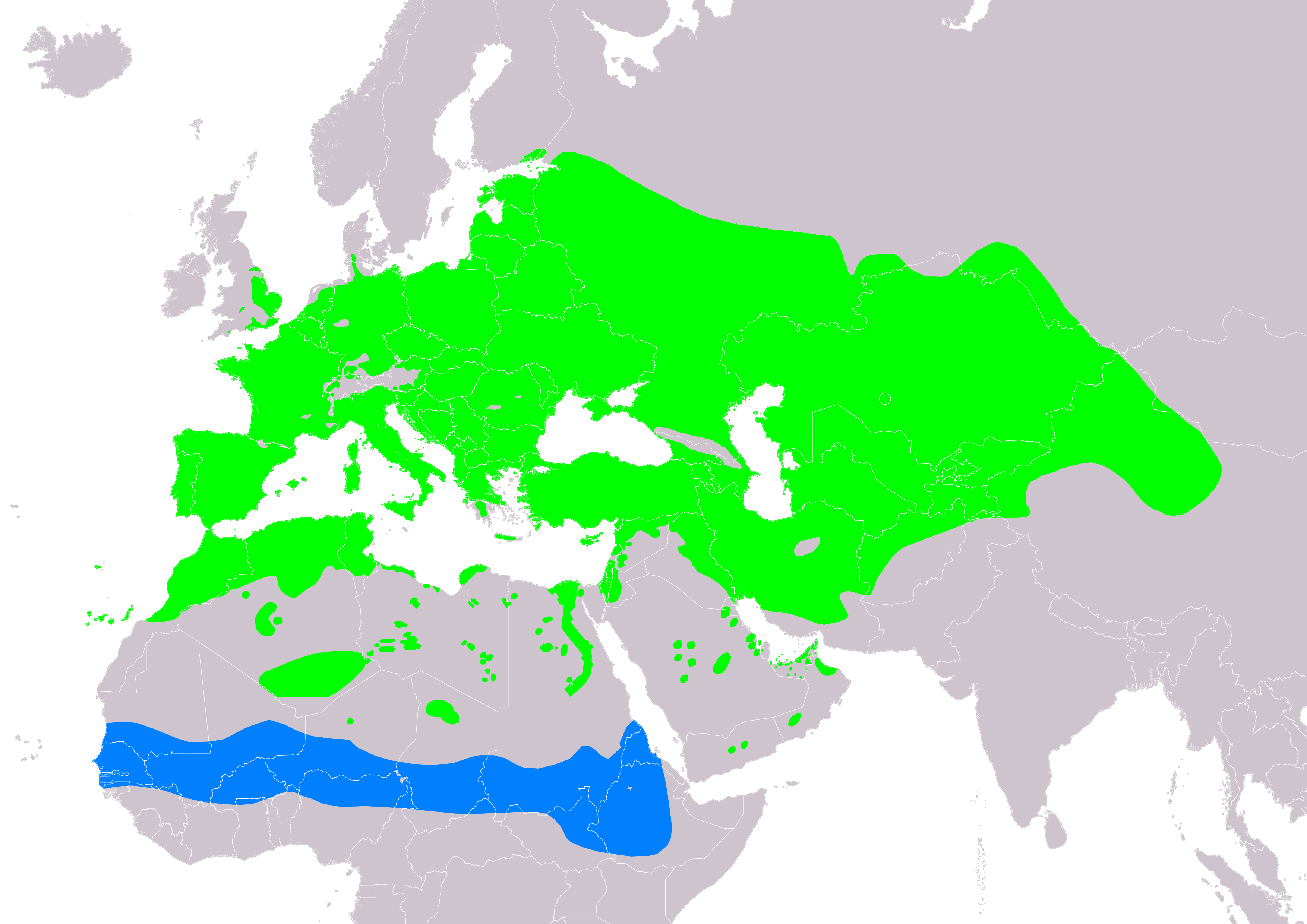 Distribution map of european turtle-dove (Streptopelia turtur) according to IUCN version 2020.1 (compiled by: BirdLife International and Handbook of the Birds of the World (2019) 2019.); key: Legend: Extant, breeding (#00FF00), Extant, non-breeding (#007FFF)